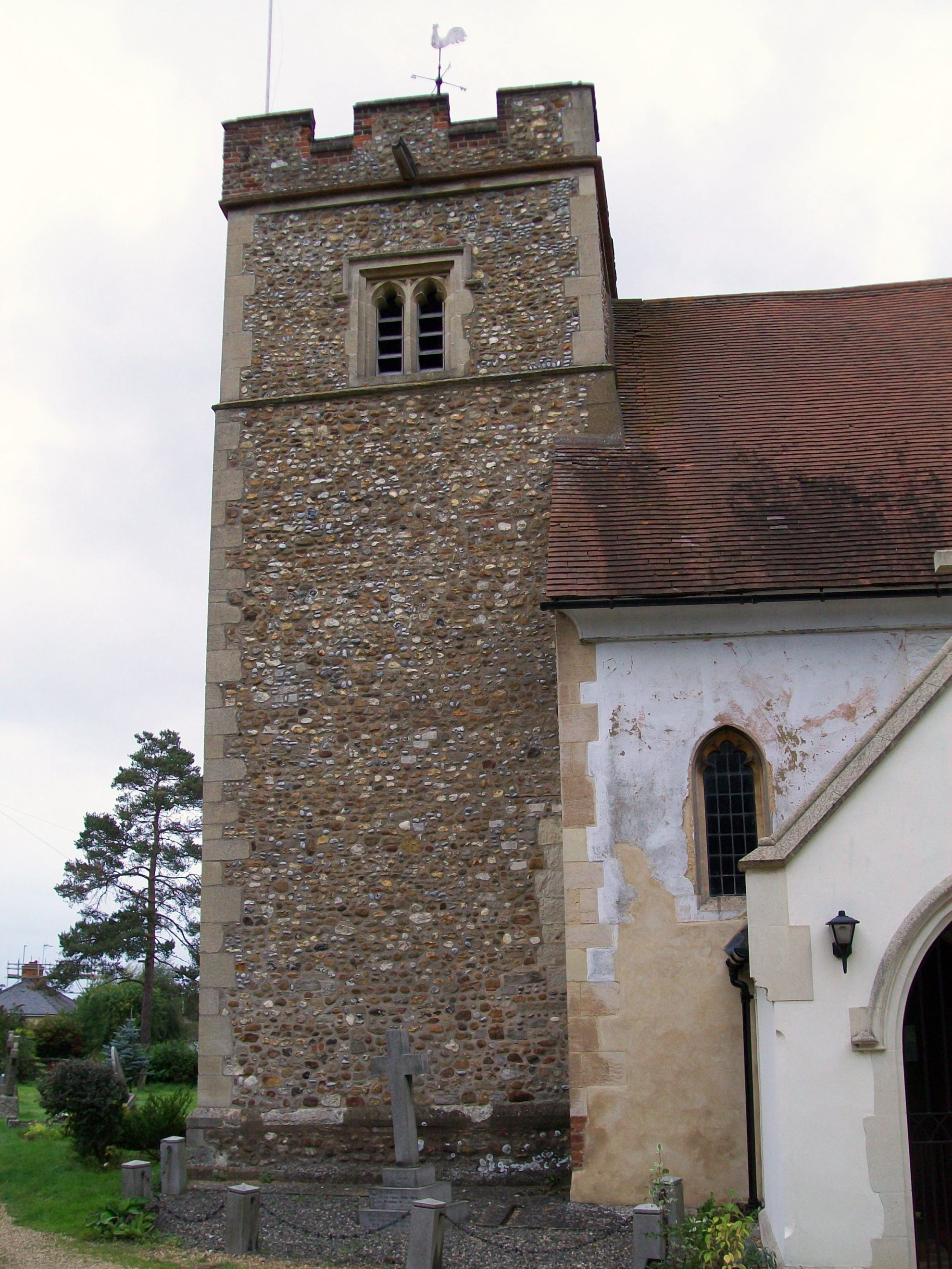 Church of St Mary the Virgin, Little Wymondley, Hertfordshire, 15 September 2010